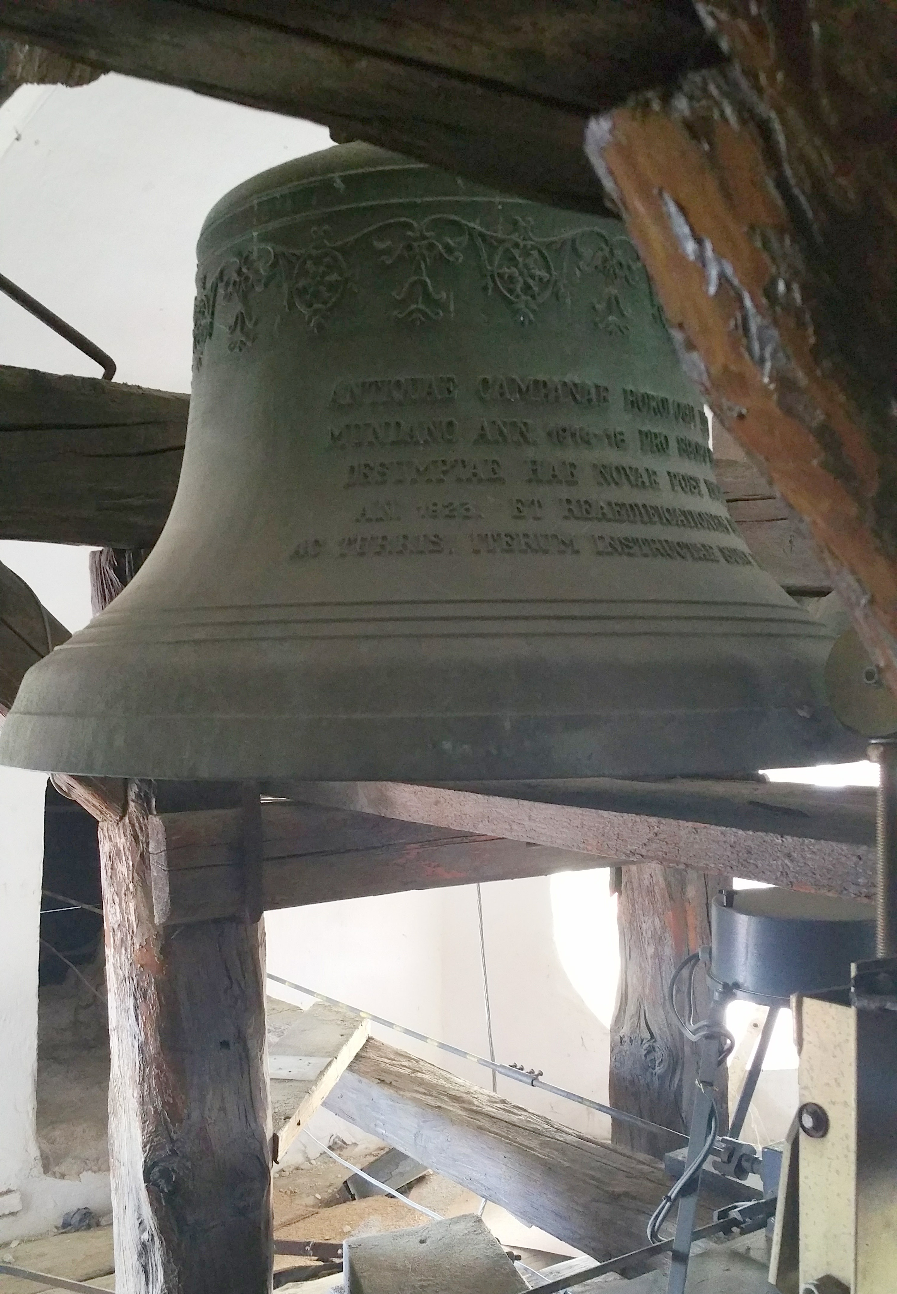 Bell in the tower of St. James Basilica, Levoca